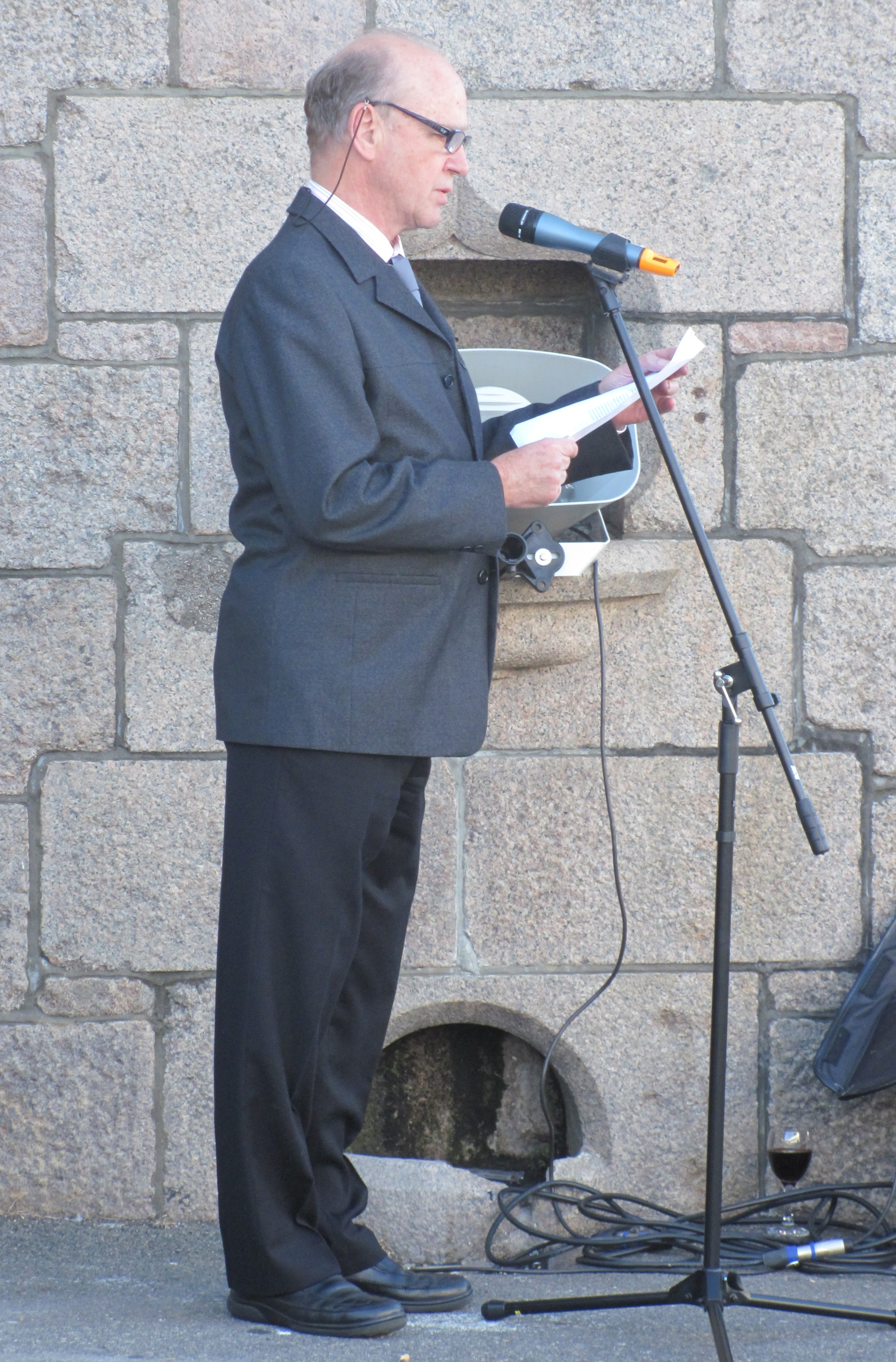 28 June 2010. 70th anniversary commemoration of the German bombardment of 28 June 1940 - and of the victims. Saint Helier harbour, Jersey. Sean Arnold, actor, reading.